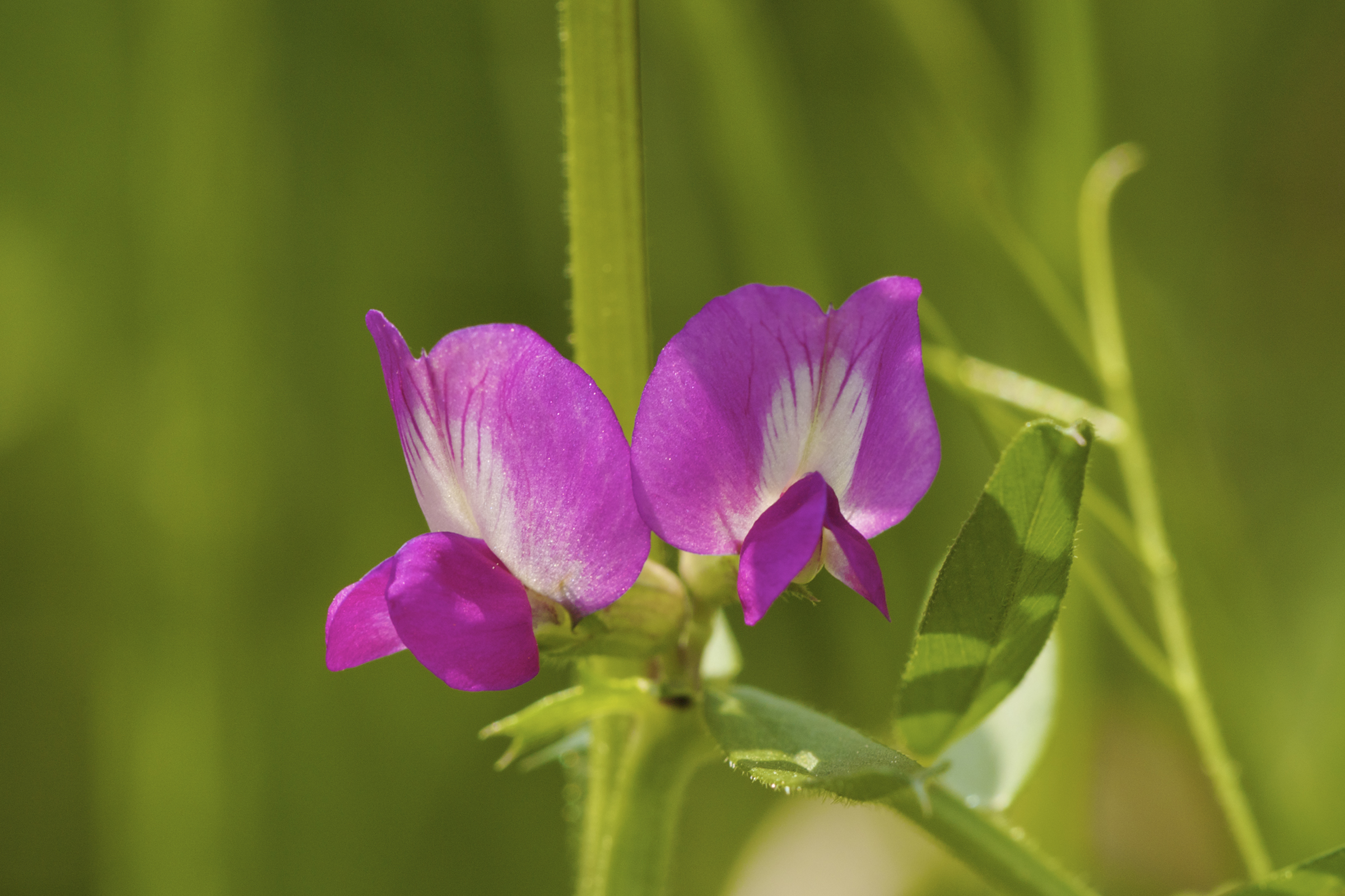 Flowers of the Common Vetch (Vicia sativa), Chemnitz, Germany